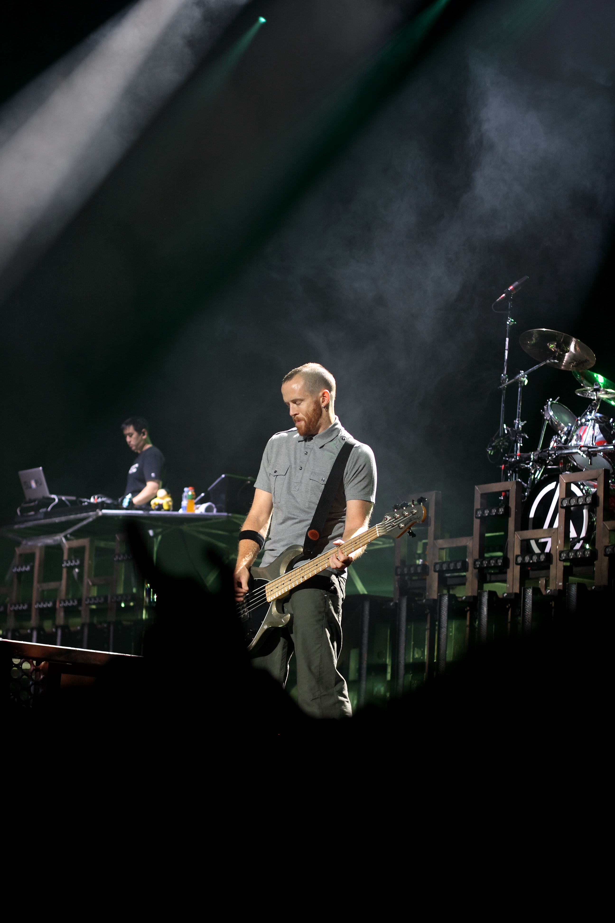 David "Phoenix" Farrell of Linkin Park at The Globe Arena in Stockholm